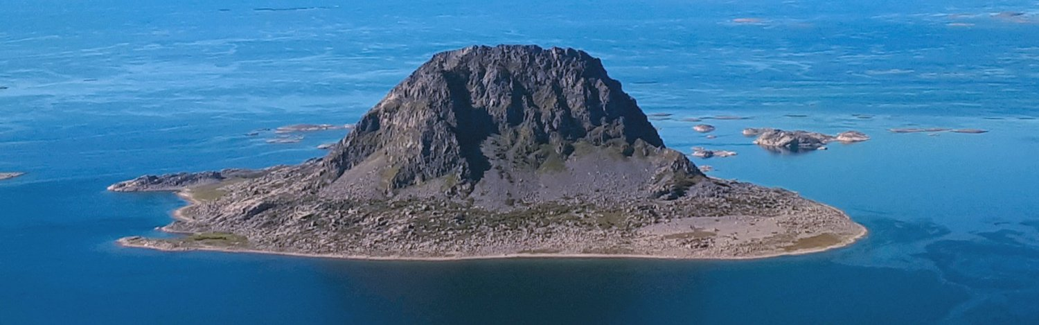 The island Søla seen from Vega in Nordland County, Norway.